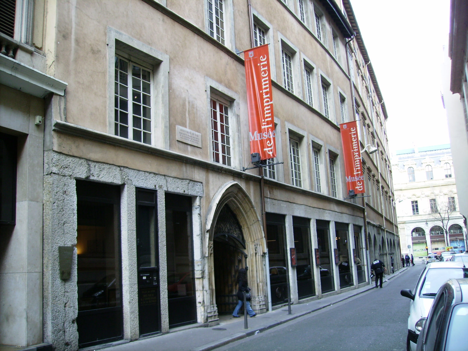 Entry of the Museum of the printing works of Lyon